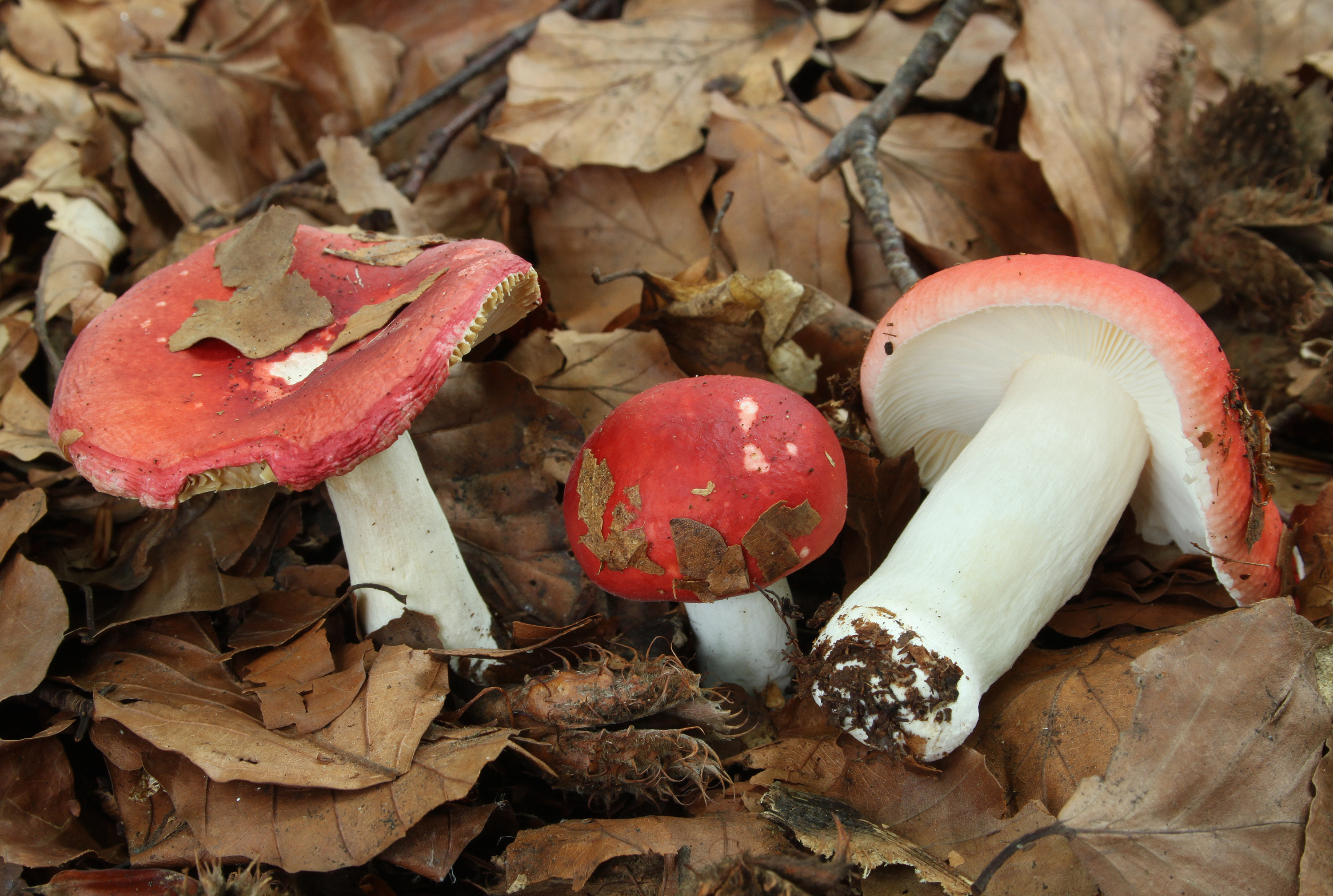 Beechwood Sickener, Russula nobilis, Family: Russulaceae, Location: Germany, Oberstdorf